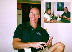 Dr. Steven Greer